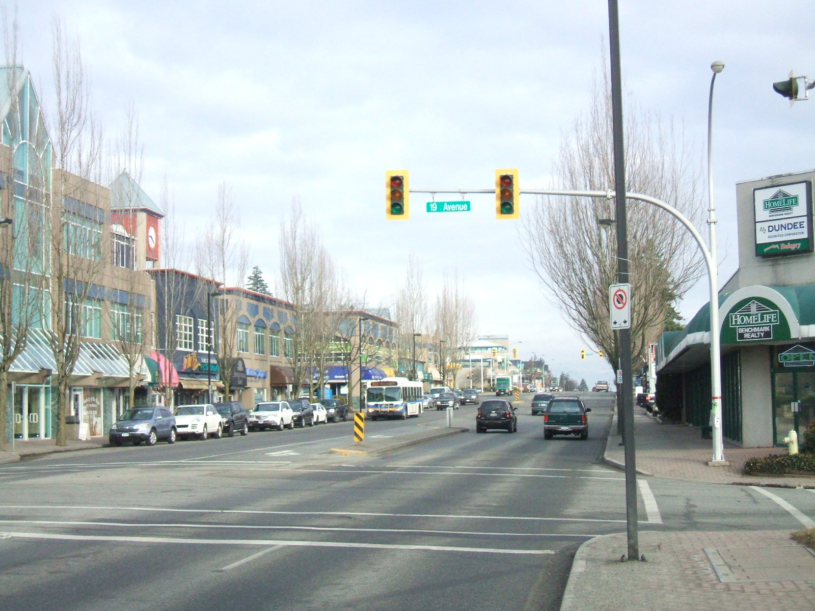 A North facing view of 152 Street in Downtown South Surrey in BC, Canada from about 18 Avenue.